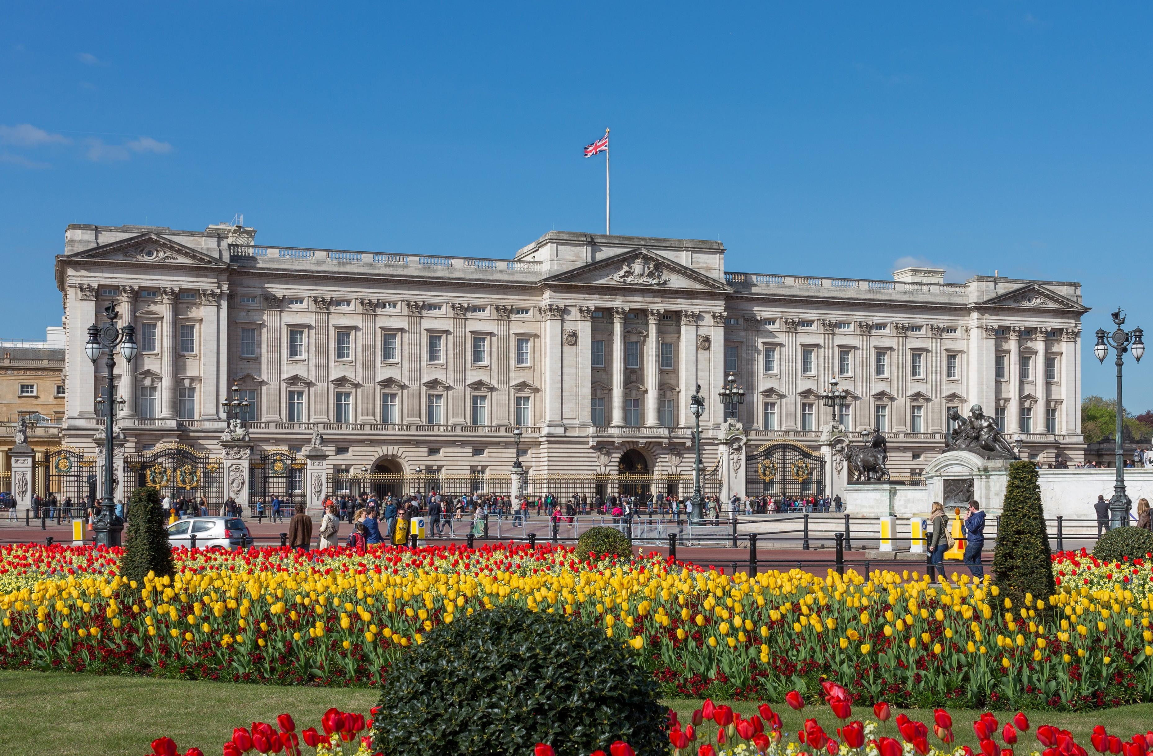 The view of the eastern façade of Buckingham Palace and the Victoria Memorial, seen from the gardens.